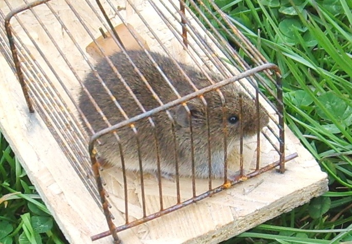 Microtus arvalis from Interlaken, Switzerland.